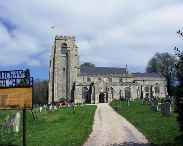 Hitcham